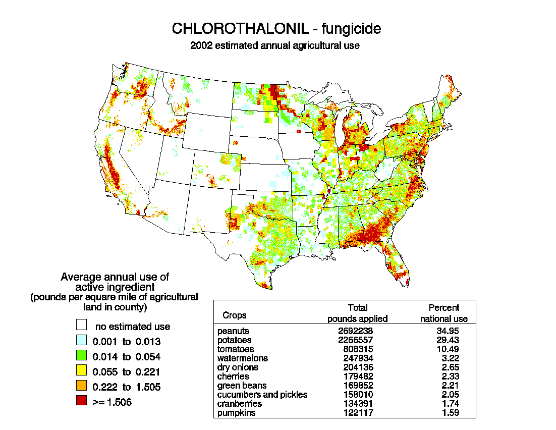 Map of US usage of chlorothalonil in 2002. Put together by the USGS, and downloaded from This will go into chlorothalonil.